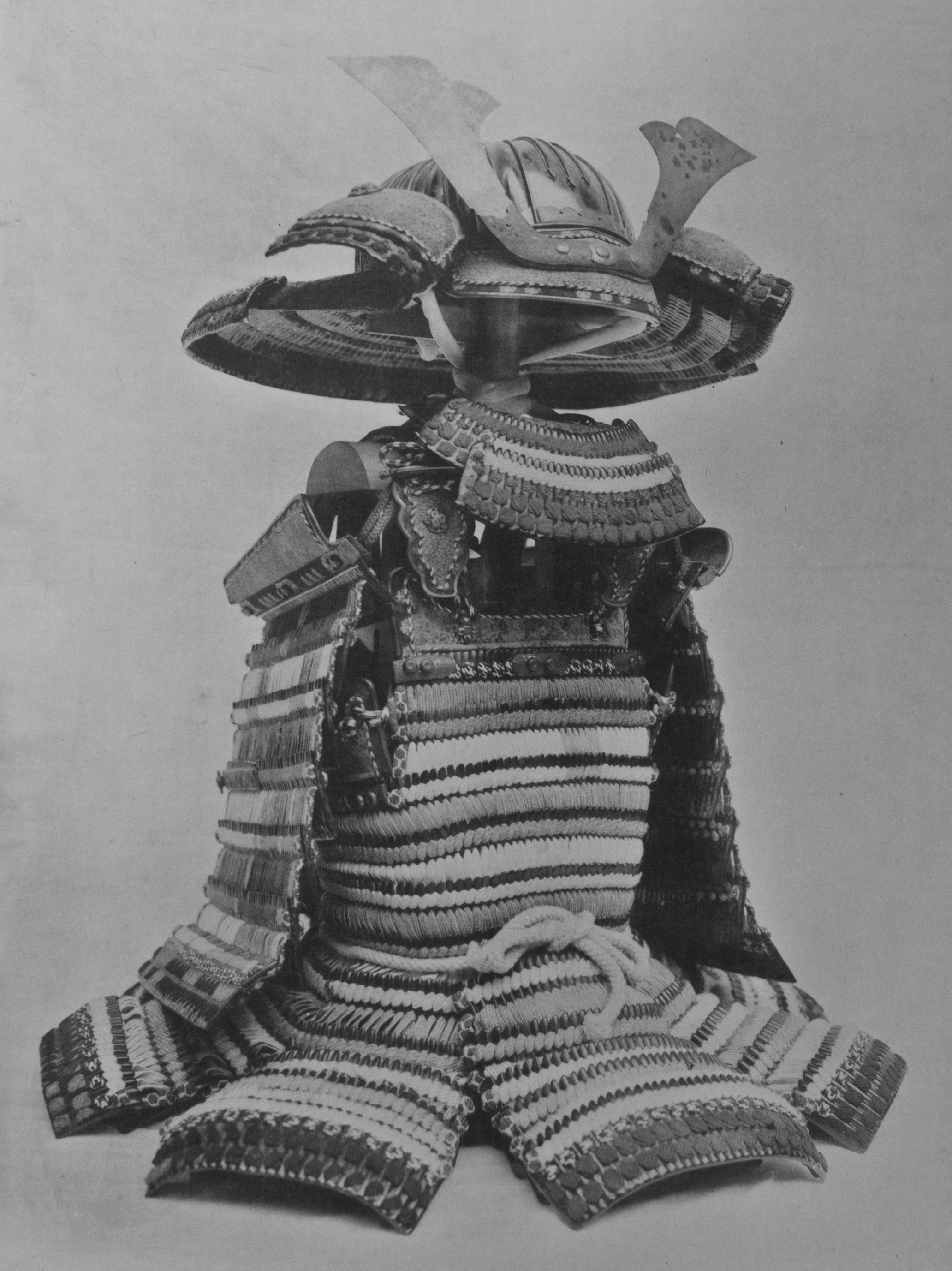 Ōyamazumi Jinja, Ehime, Japan